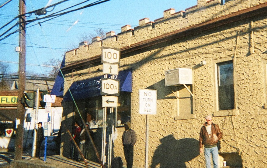 Image of NY 100 and 100A's intersection at 100A's southern terminus